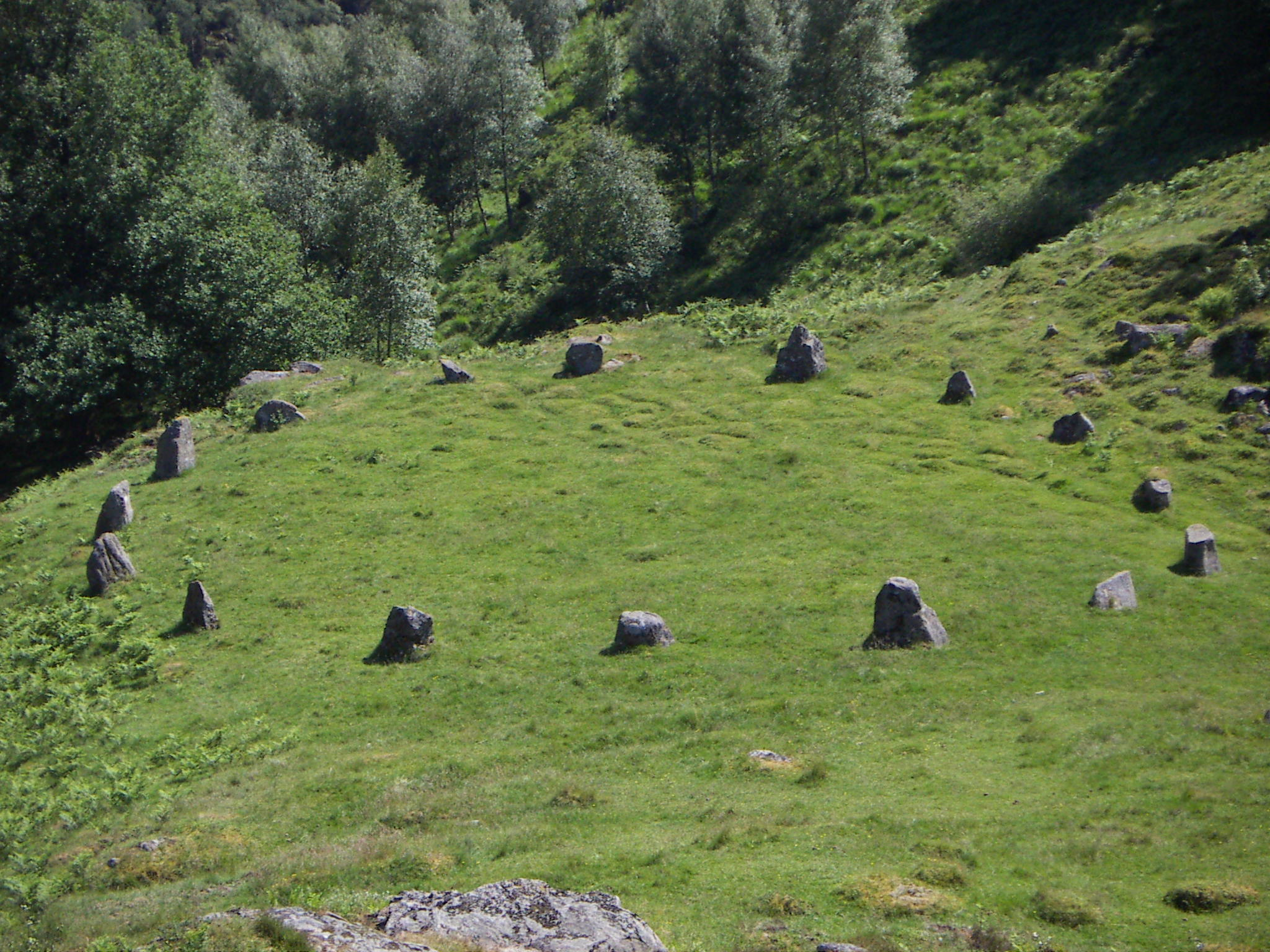 Stoplesteinan in Egersund, Norway. Ancient stone circle of unknown origin